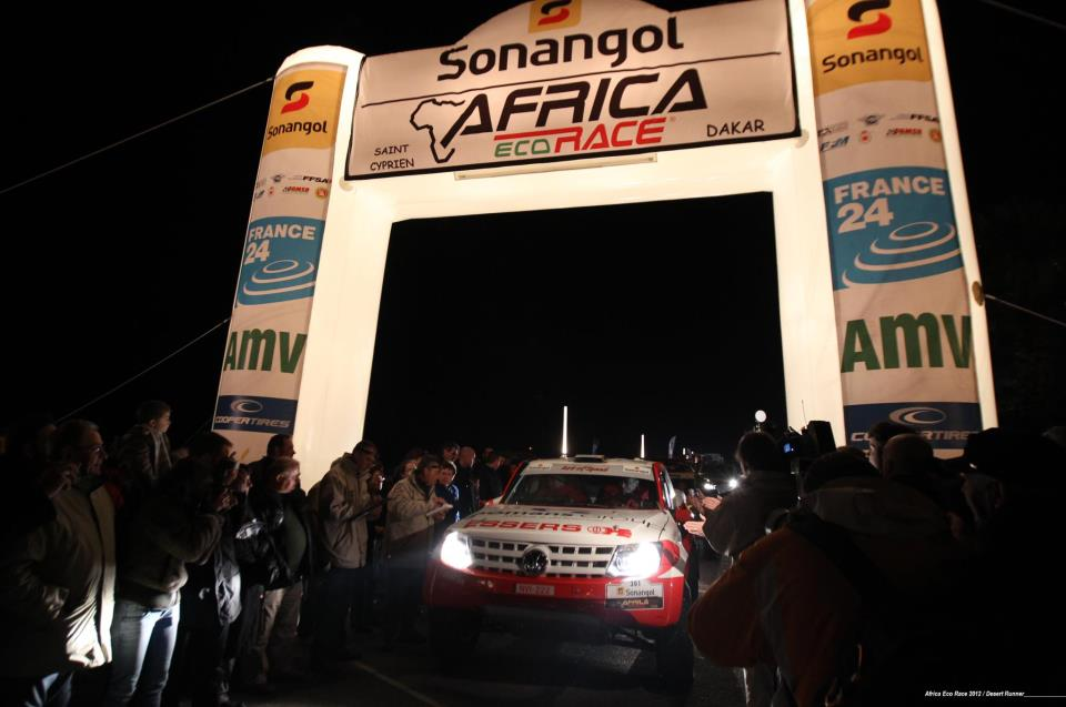 Africa Eco Race 2012